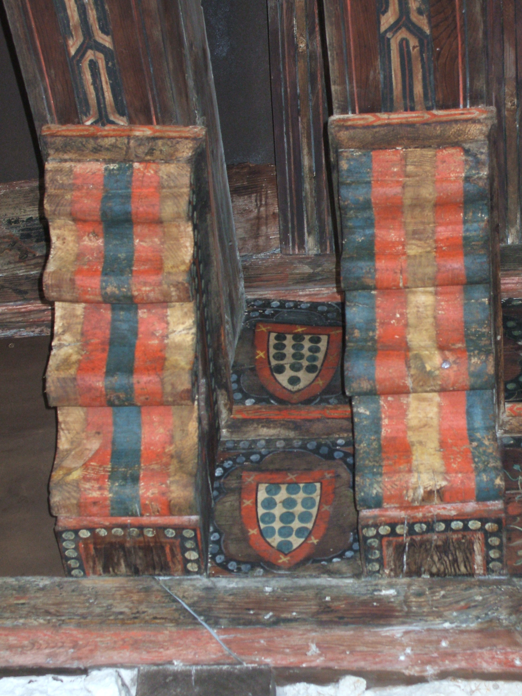 Palace of King Pedro I, in Cuéllar.